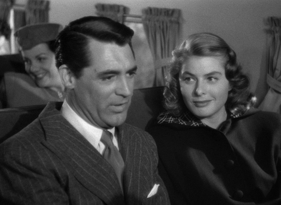 This screenshot shows Ingrid Bergman and Cary Grant on an airplane.